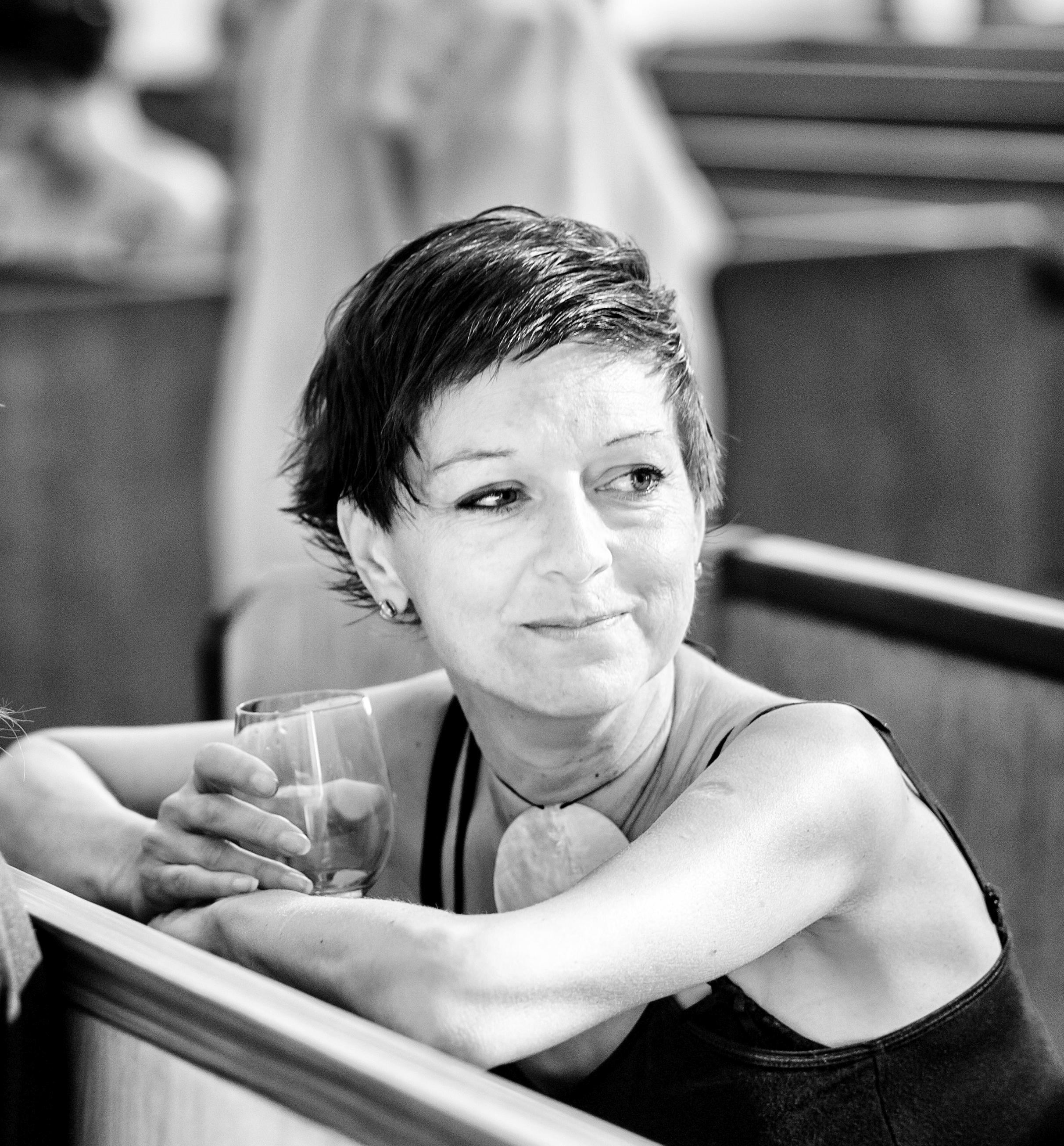 Michal Kobrle Jana Vincencova Galerie amb OLYMPUS DIGITAL CAMERA